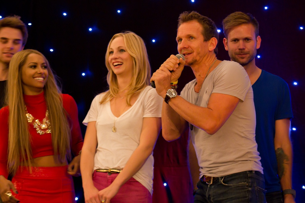 The cast of The Vampire Diaries at an event on June 16, 2013.